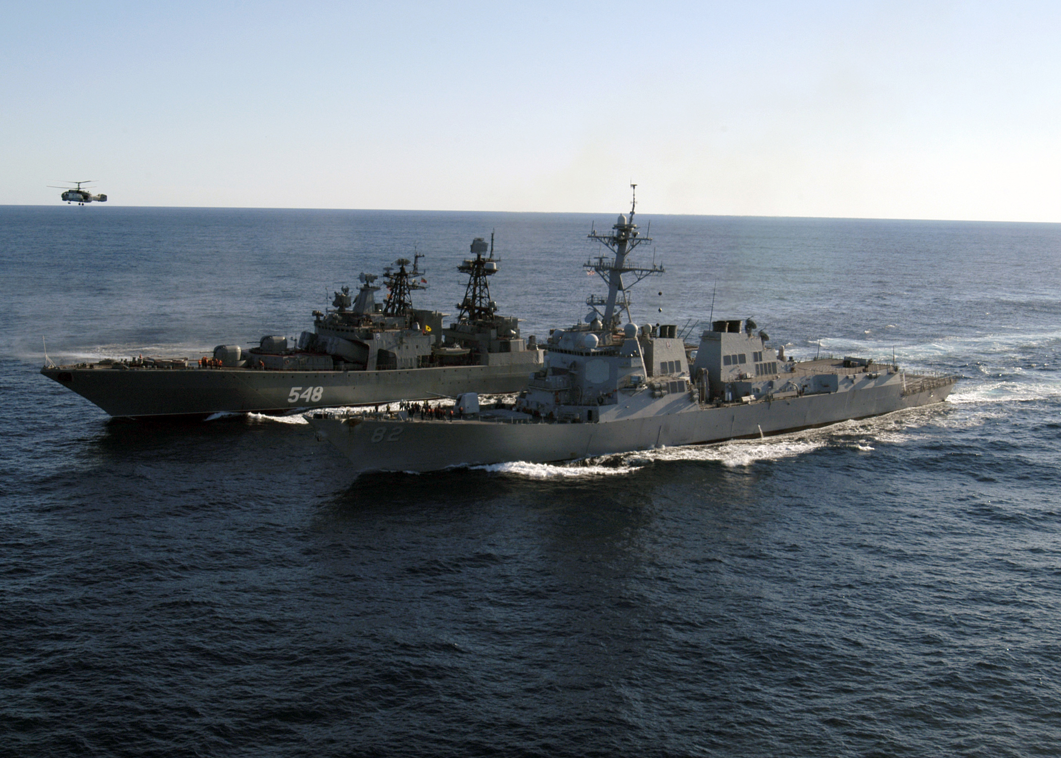 Arleigh Burke-class guided-missile destroyer USS Lassen (DDG 82) and Russian destroyer RFS Admiral Panteleyev transit together while conducting an underway replenishment maneuver during exercise Pacific Eagle. Pacific Eagle is a bilateral exercise between the United States and the Russian Federated Navy.